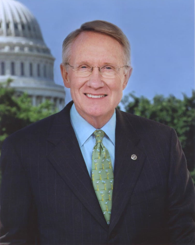 U.S. Senator Harry Reid of Nevada, September 2002.